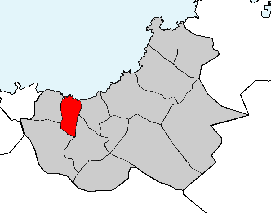 Location of the parish of Chamín in the municipality of Arteixo (Galicia, Spain)